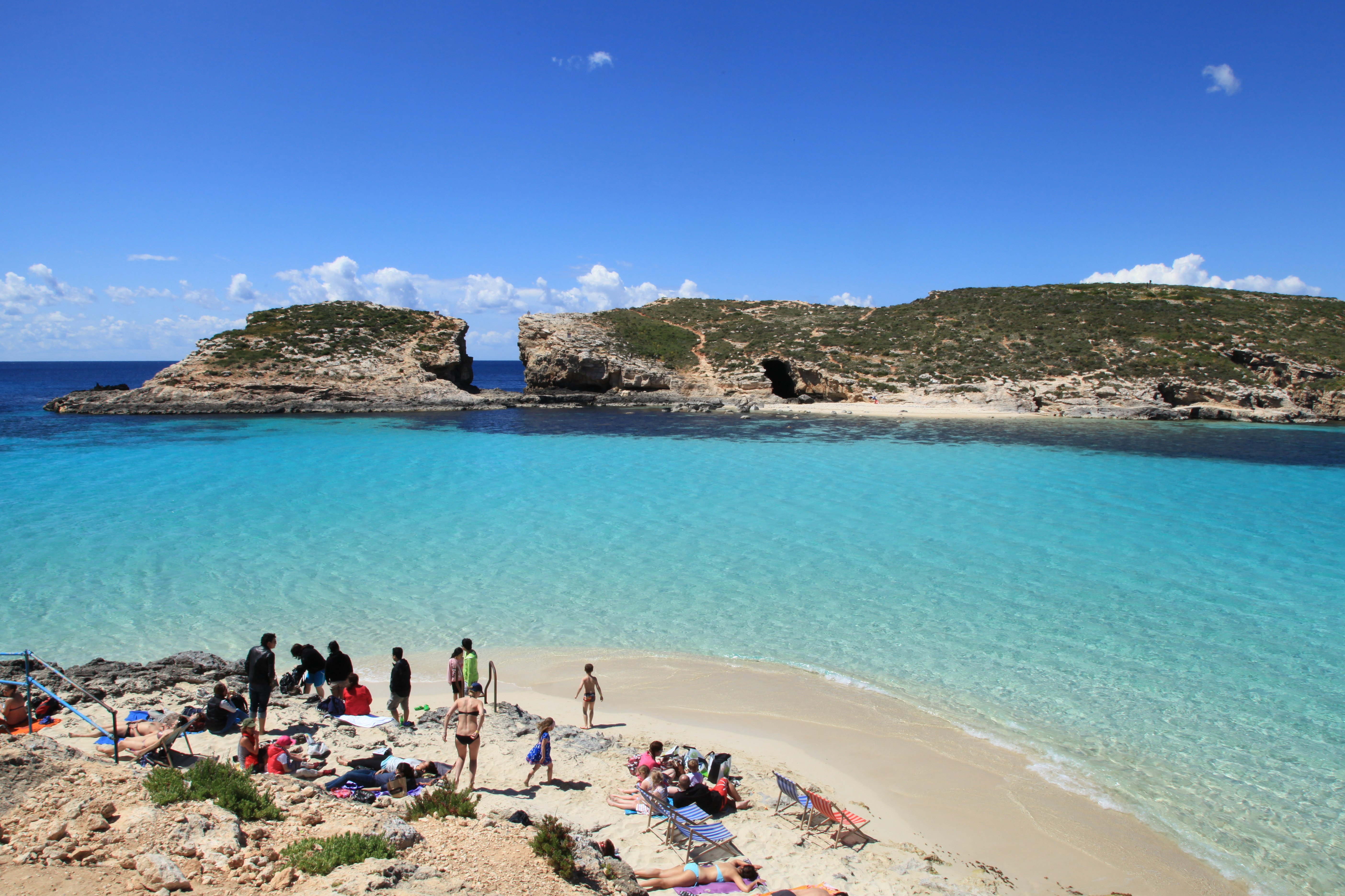 View from Comino to Cominotto and the Blue Lagoon in Għajnsielem, Malta